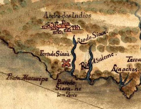 Ceará -1629